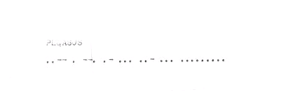 A printout from the Pegasus (in the Science Museum, UK). The text reads "PEGASUS" on one line, followed on the next line by the morse code for "ÜEGASUS", followed by nine dots. Scanned in by me.